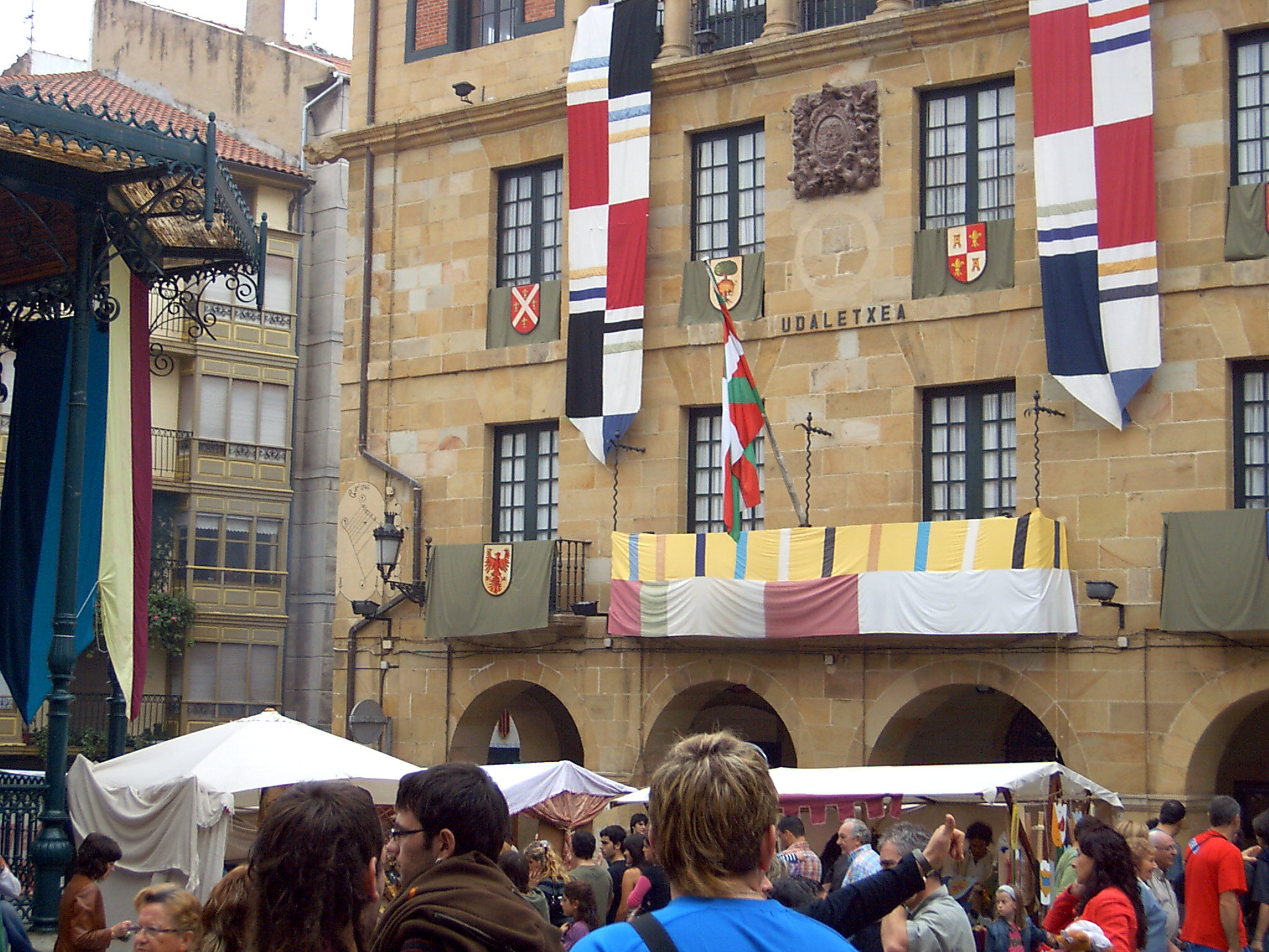 Bermeo mediaval festivity and city hall, Biscay